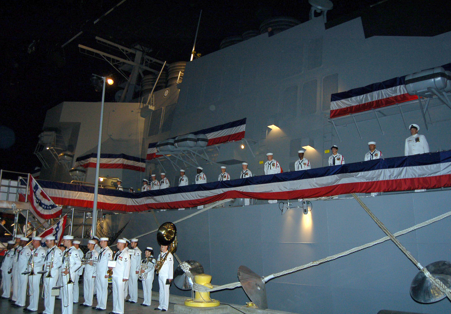 070618-N-3935S-006 GREAT LAKES, Ill. (June 18, 2007) - Sailors man the rails of USS Trayer (BST-21), the Navy's newest simulator, during a commissioning ceremony at Recruit Training Command. Trayer, along with Battle Stations 21, is the culmination of all training received at the Navy's only boot camp. The simulator is a grueling 12-hour test of a recruit's skills in several shipboard evolutions, including fighting fires and stopping floods. The final evolution, now held entirely in the Arleigh Burke-class destroyer simulator, marks a recruit's final rite of passage into the Navy.